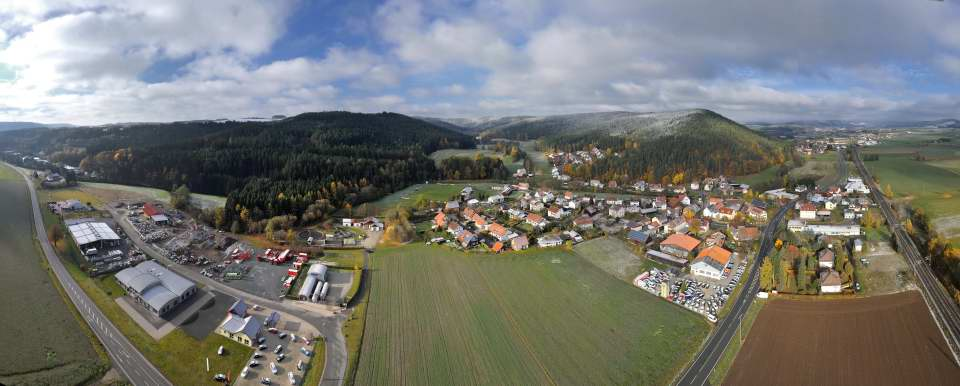 Knellendorf